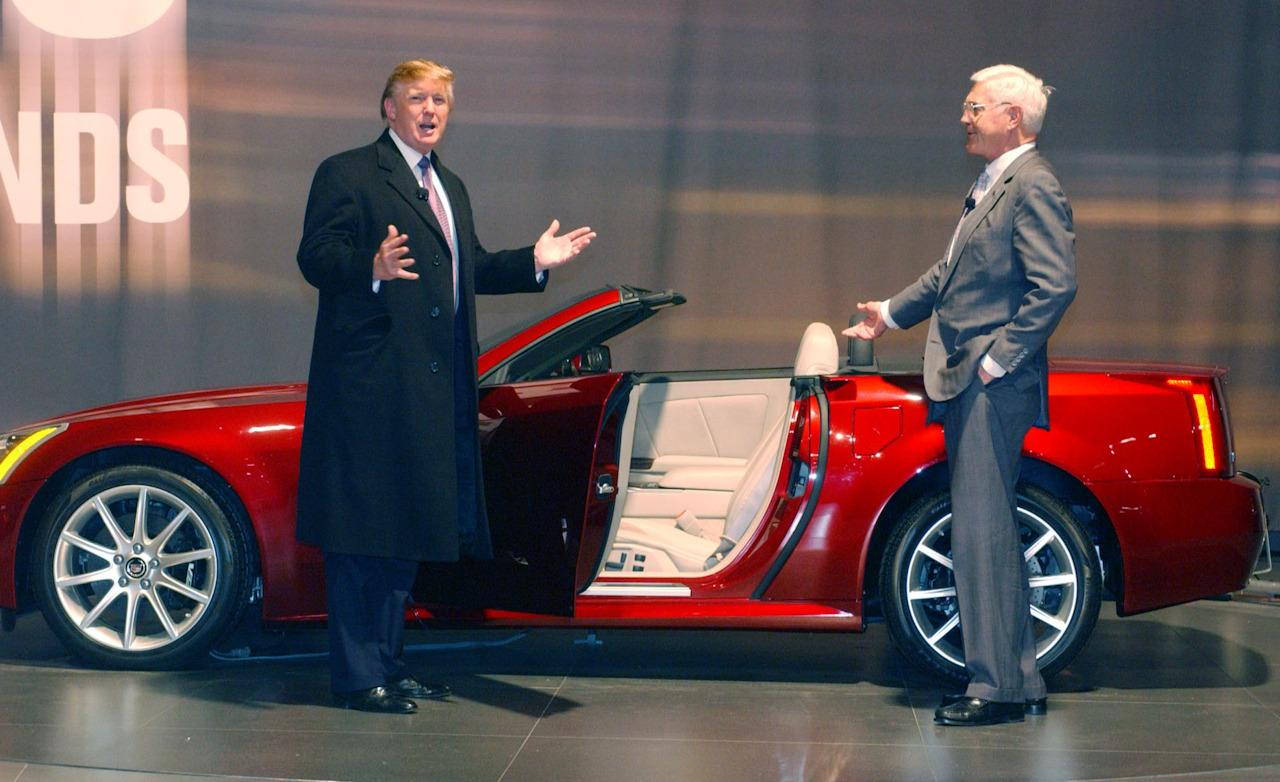 Bob Lutz and Donald Trump with the 2006 Cadillac XLR-V at the New York International Auto Show